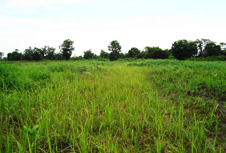 Shifting atmosphere of peace and quiet in Kampar regency, Riau.